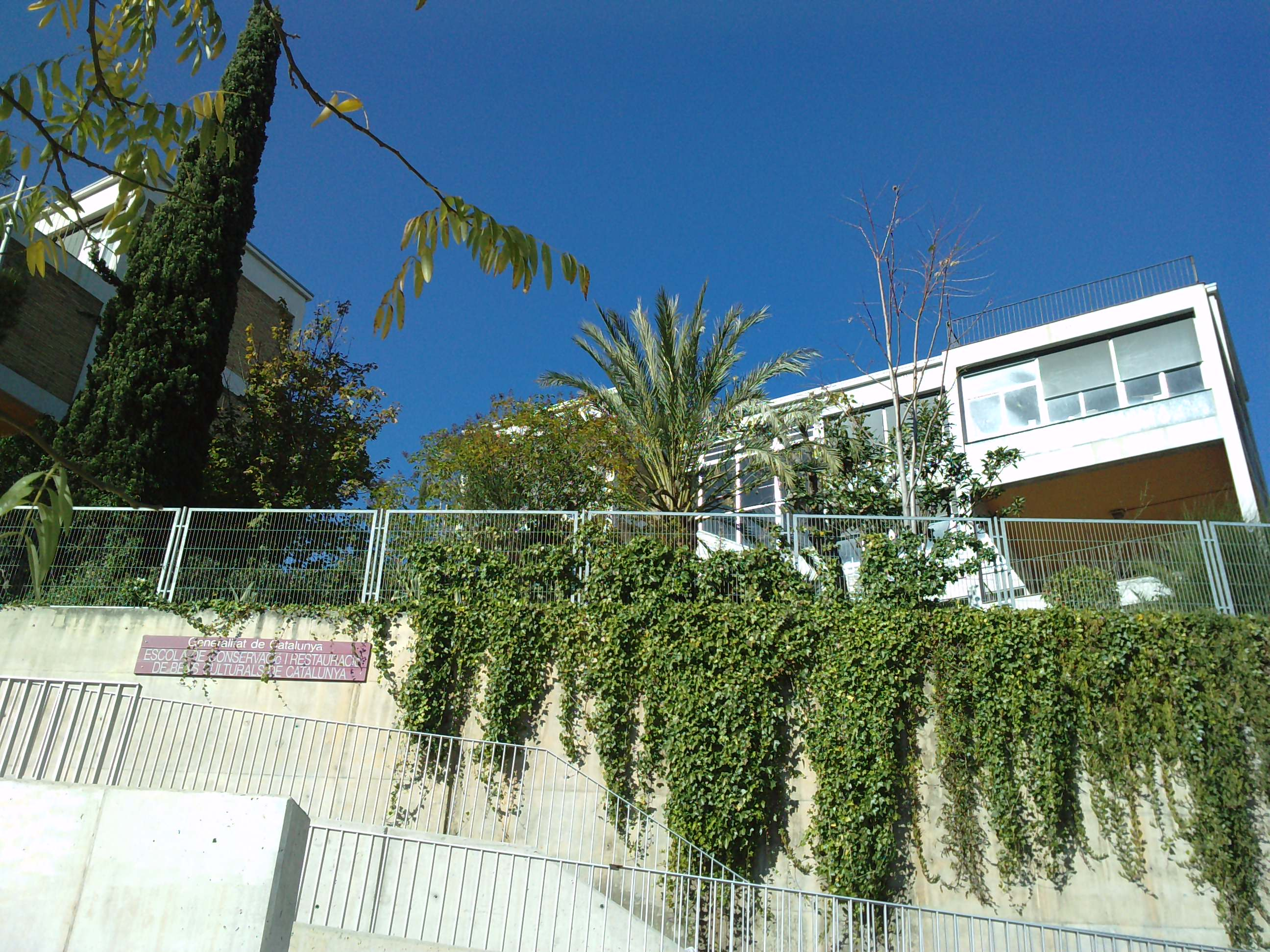 School of Cultural Heritage Conservation-Restoration of Catalonia